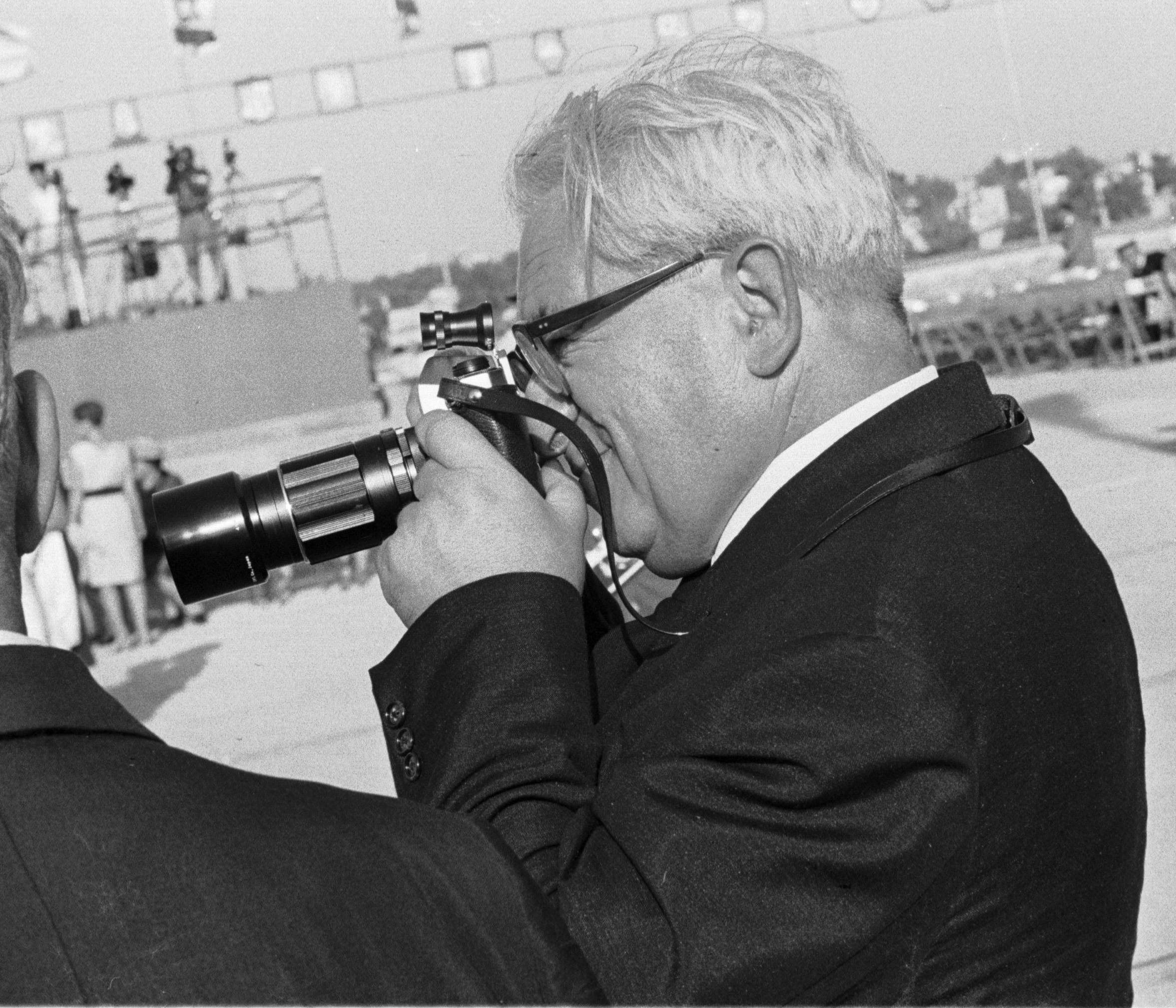 Opening ceremony of the new Knesset Building. Photo shows: Knesset Member Johanan Bader is an amatur photographer he checks a sophisticate camerahe took from a pressphotographer.